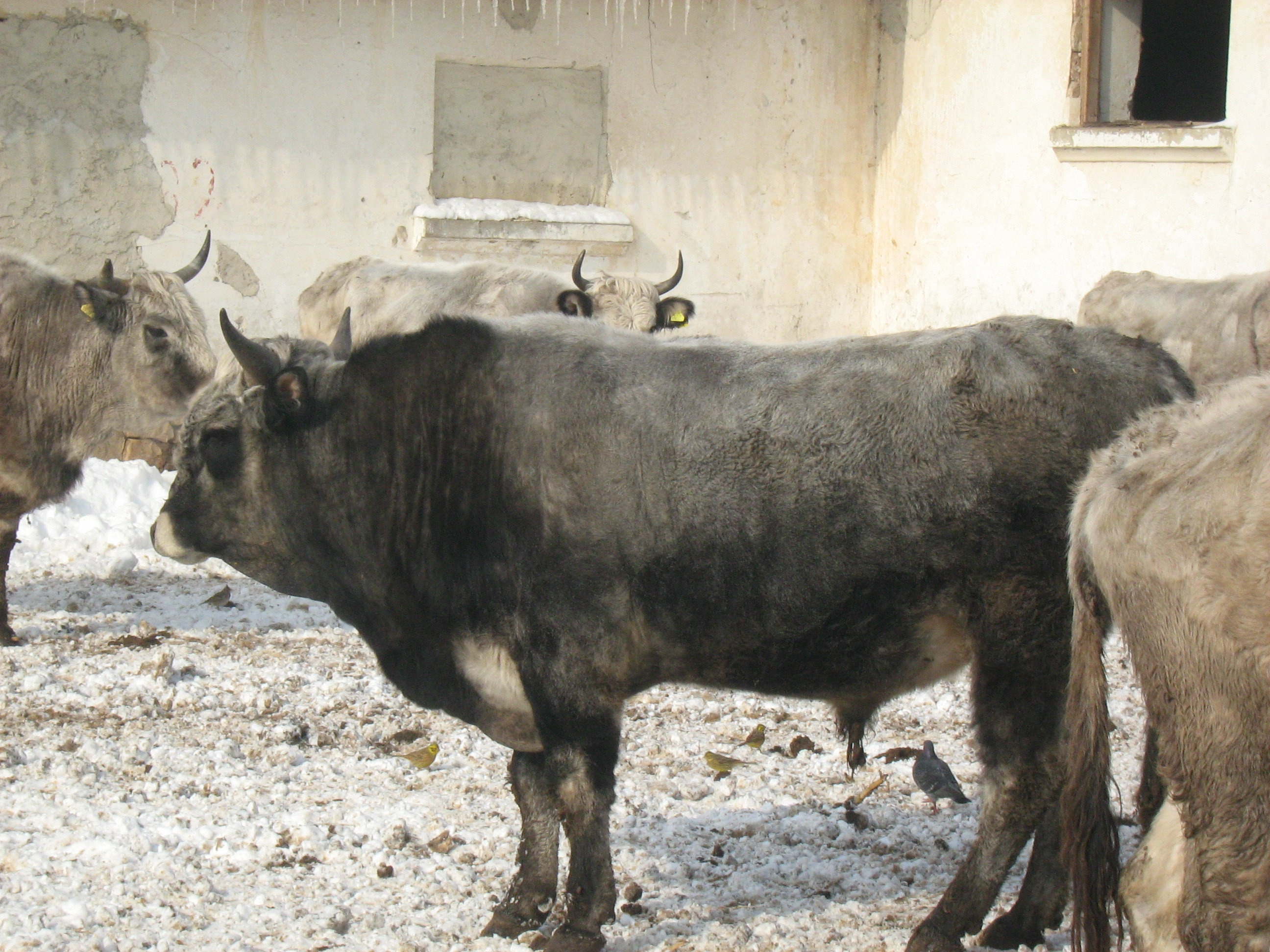 Bulgarian gray cattle